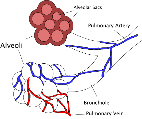 A diagram of the alveoli, both in cross section and externally. Created by Pdefer